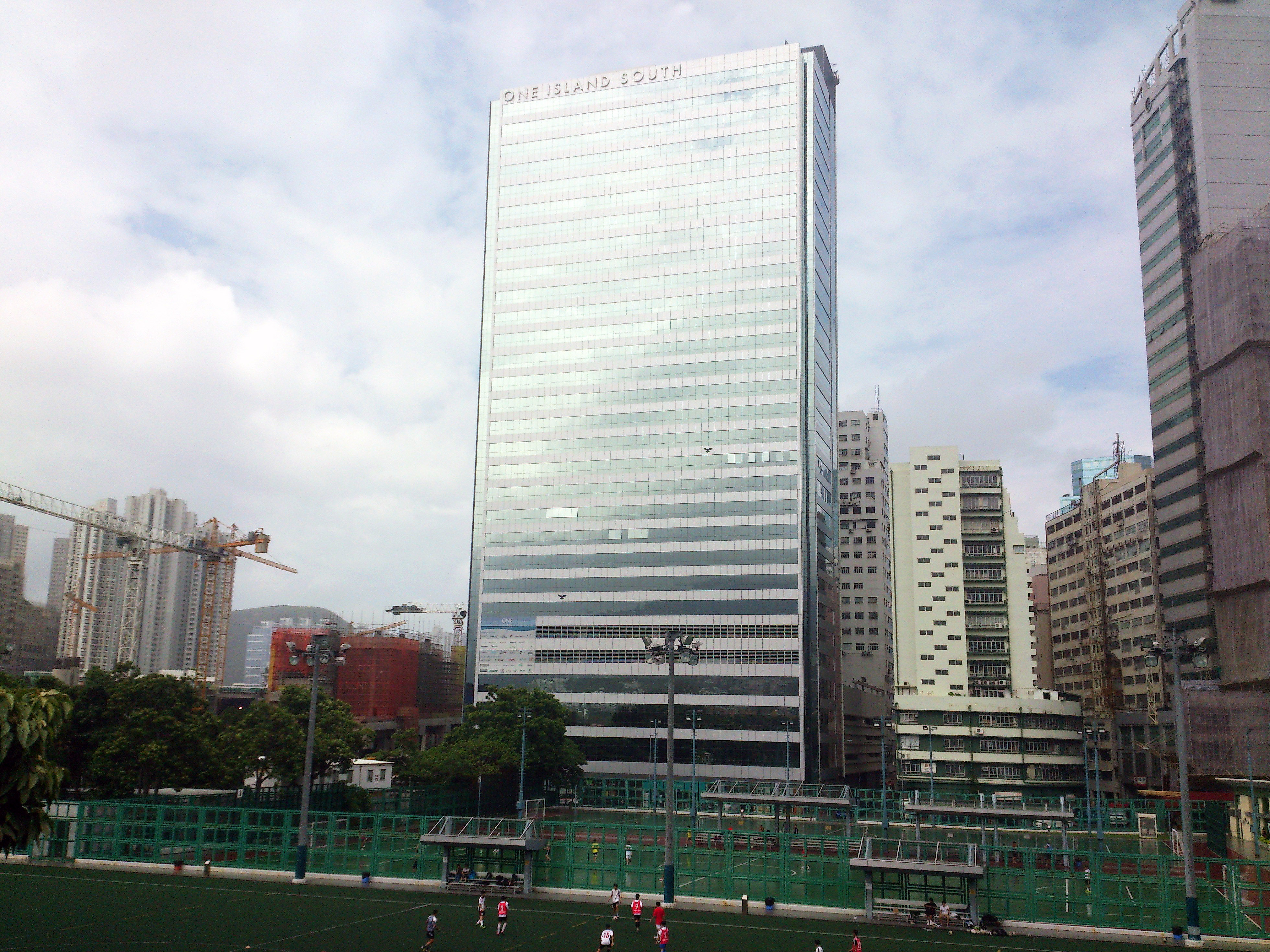 One Island South 2013